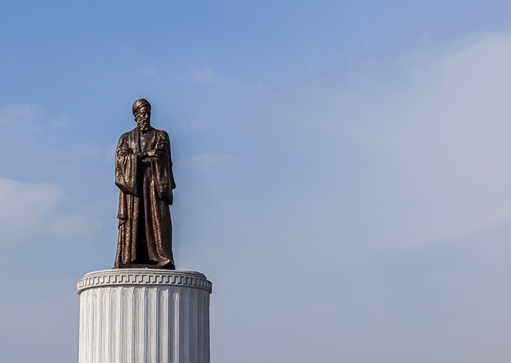 Gomrok neighbourhood in Tehran